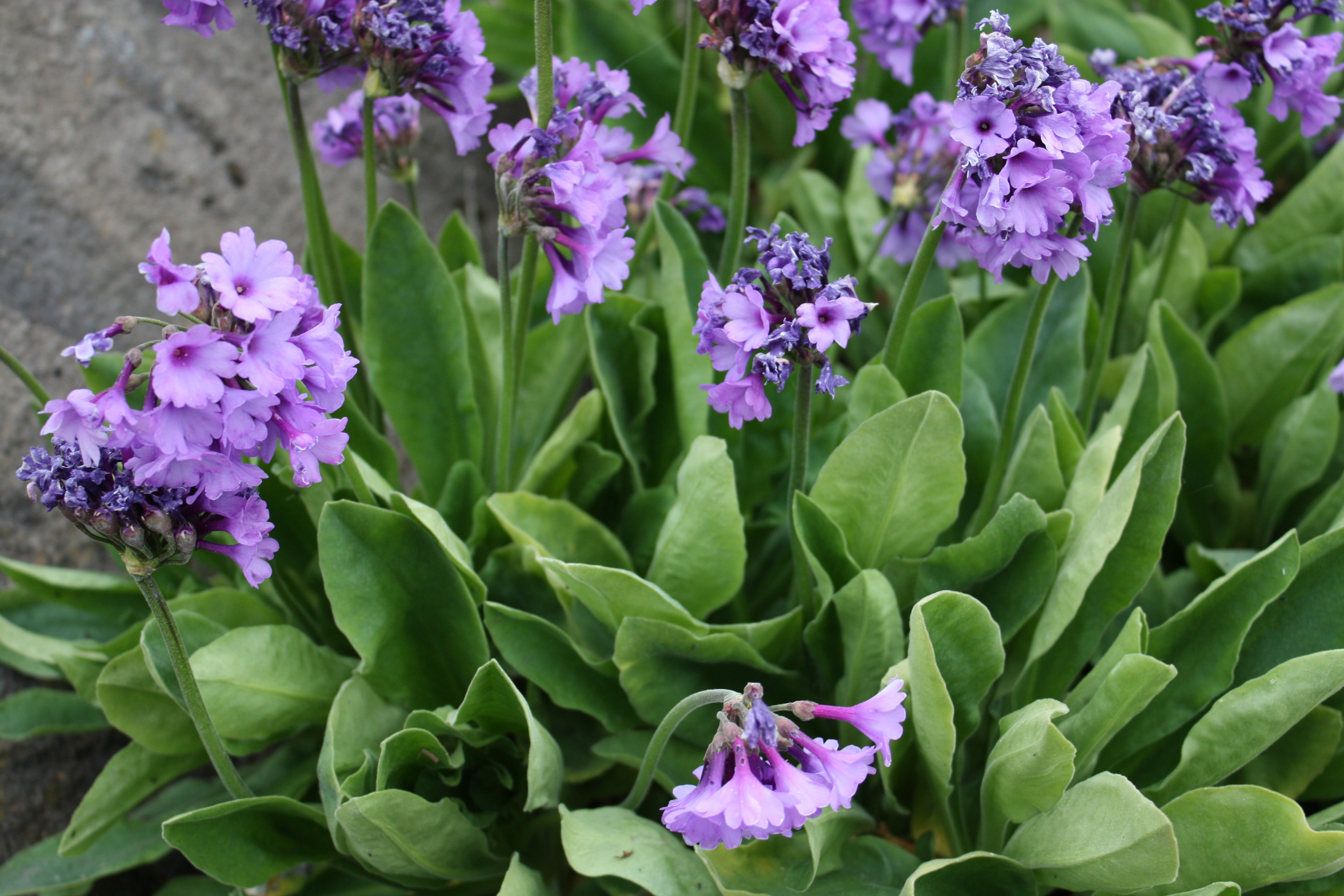 Primula latifolia in Grasagarður Reykjavíkur the Reykjavik Botanic Garden